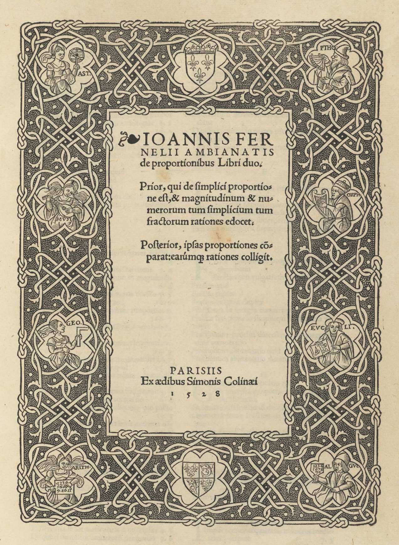 Title page from De proportionibus libri duo, Paris: 1528, by Jean Fernel (1497-1558). *FC5.F3945.528d, Houghton Library, Harvard University